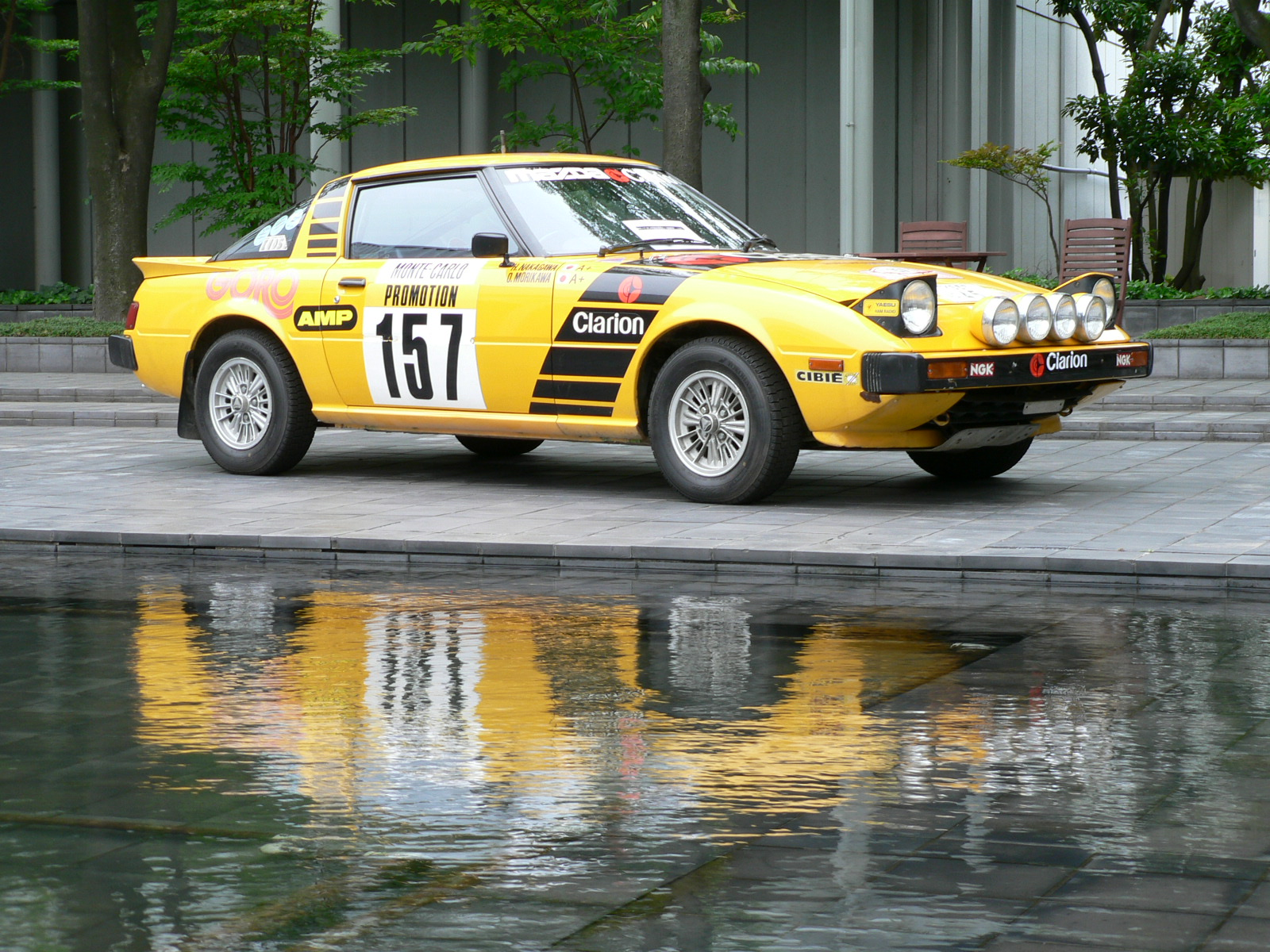 MAZDA RX-7 MONTE-CARLO RALLY('79)